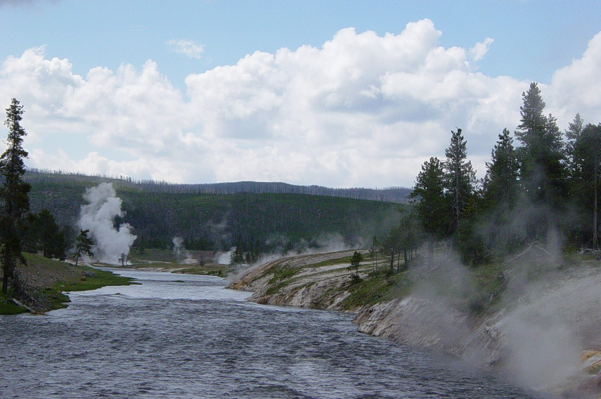 Photo taken in the Yellowstone area.